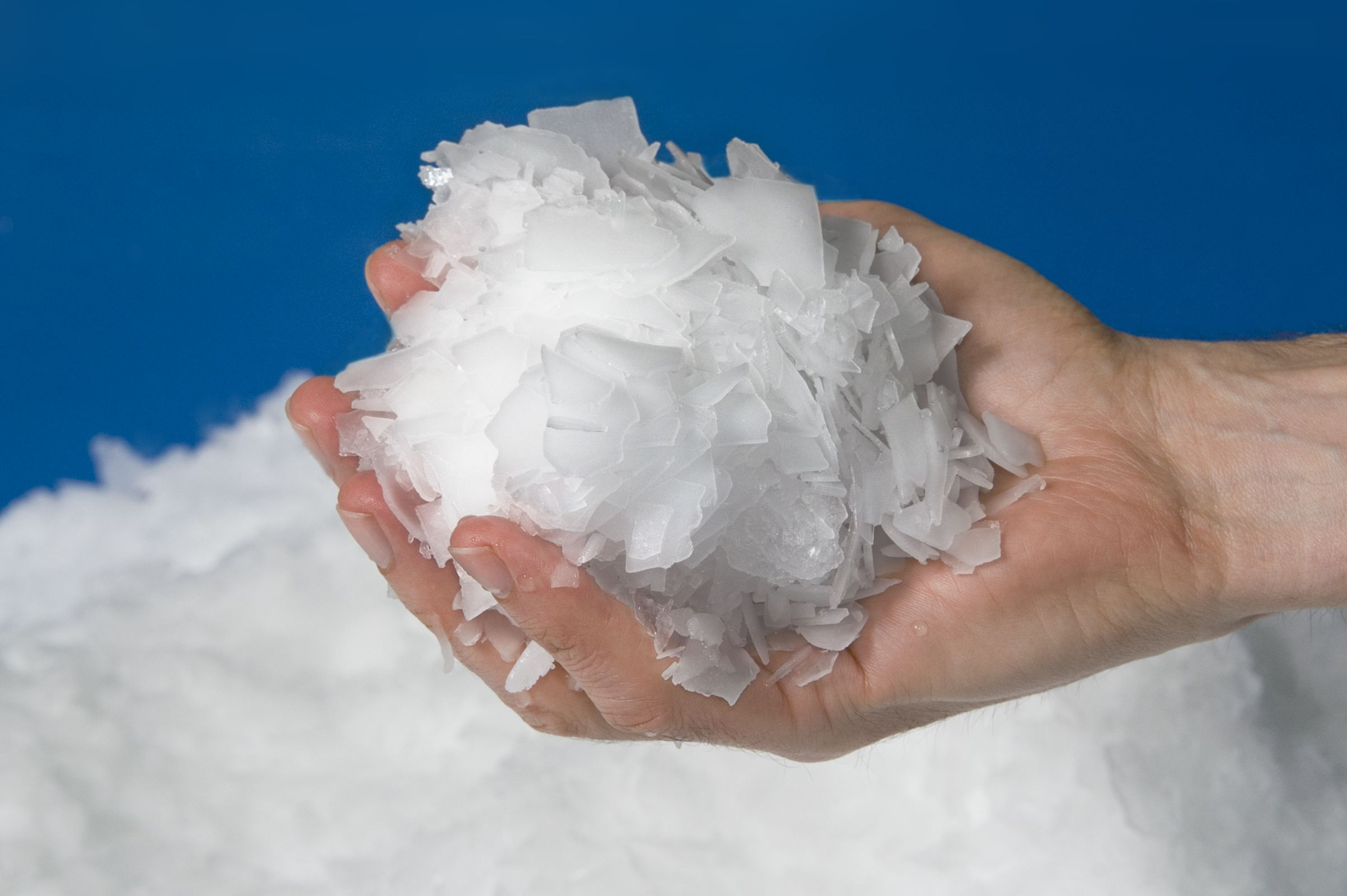 Flake ice in a man's hand